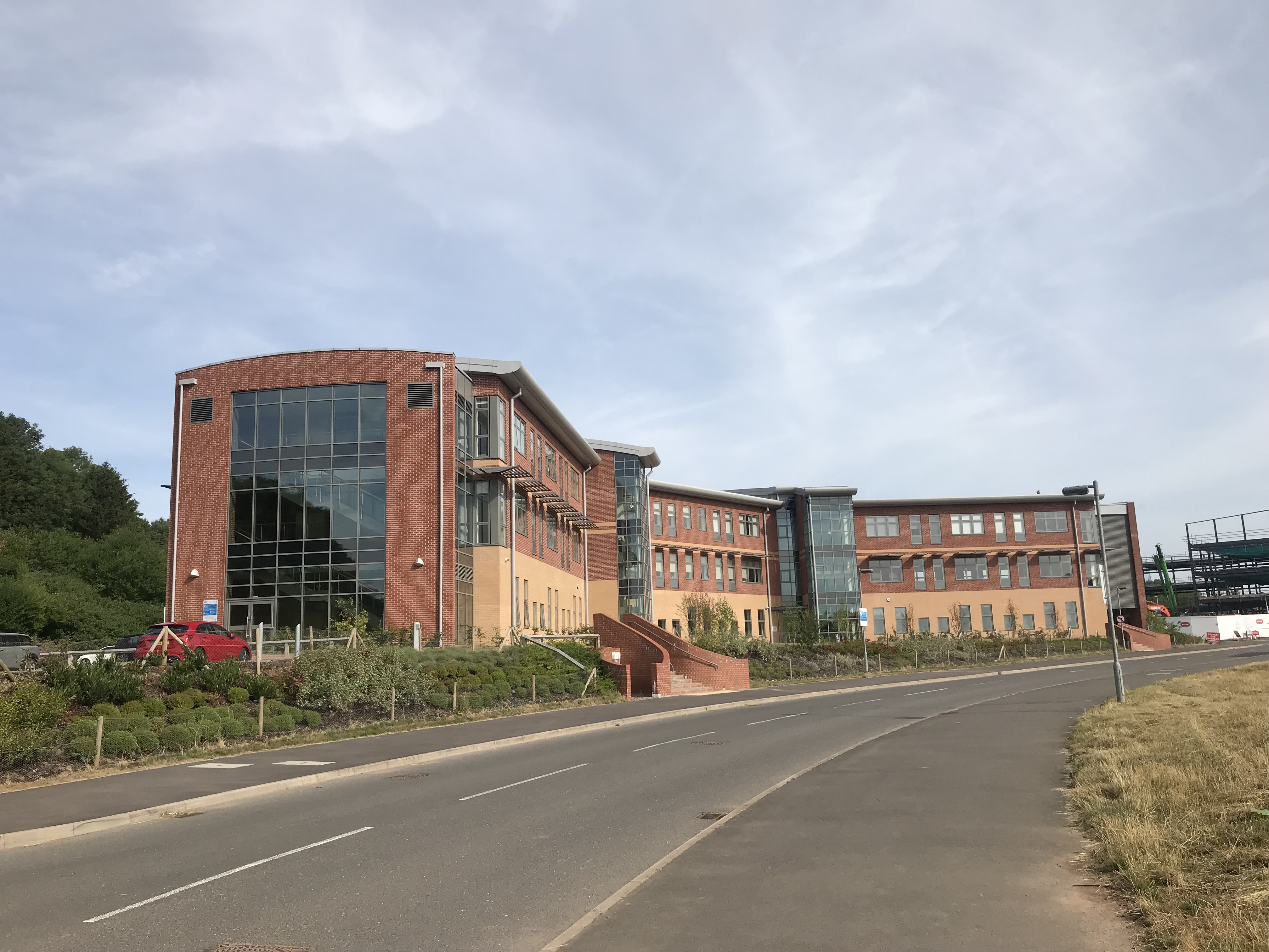 Keele University: Innovation Centre 5